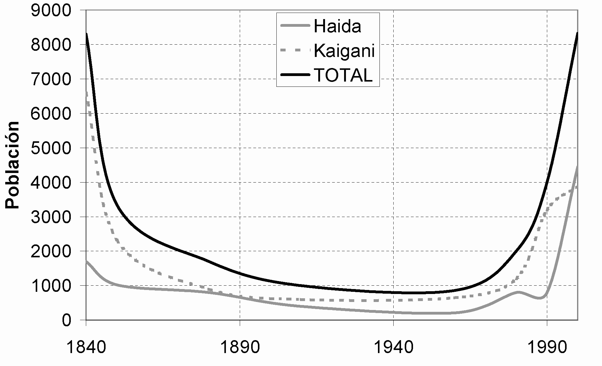 Evolution of population of Haidas, considering haidas properly (Queen Charlotte Islands) and kaigani haidas (Prince of Wales Island).